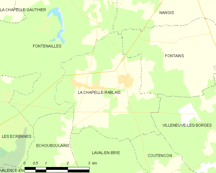 Map of French municipality La Chapelle-Rablais